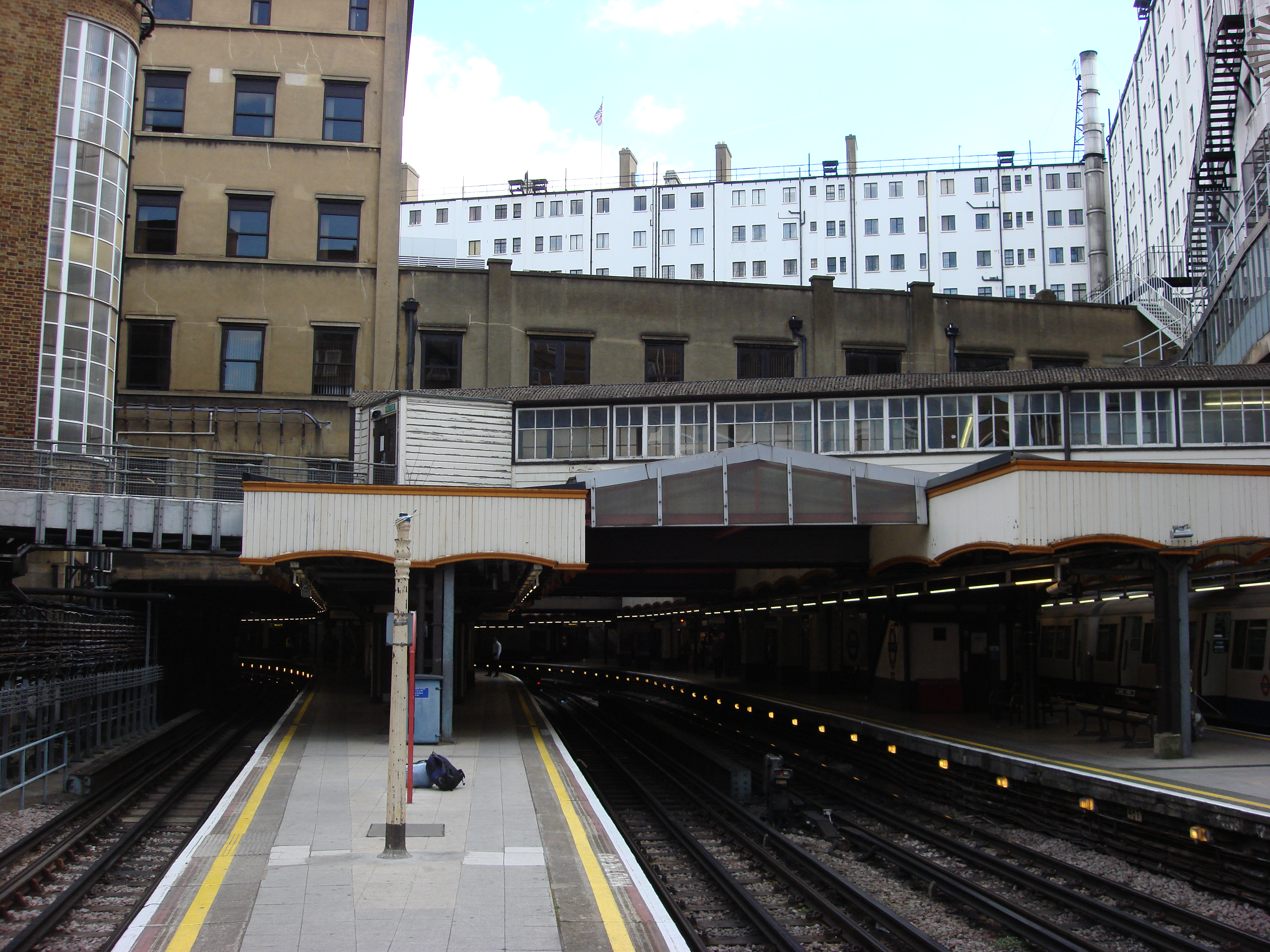 Baker Street tube station, City of Westminster